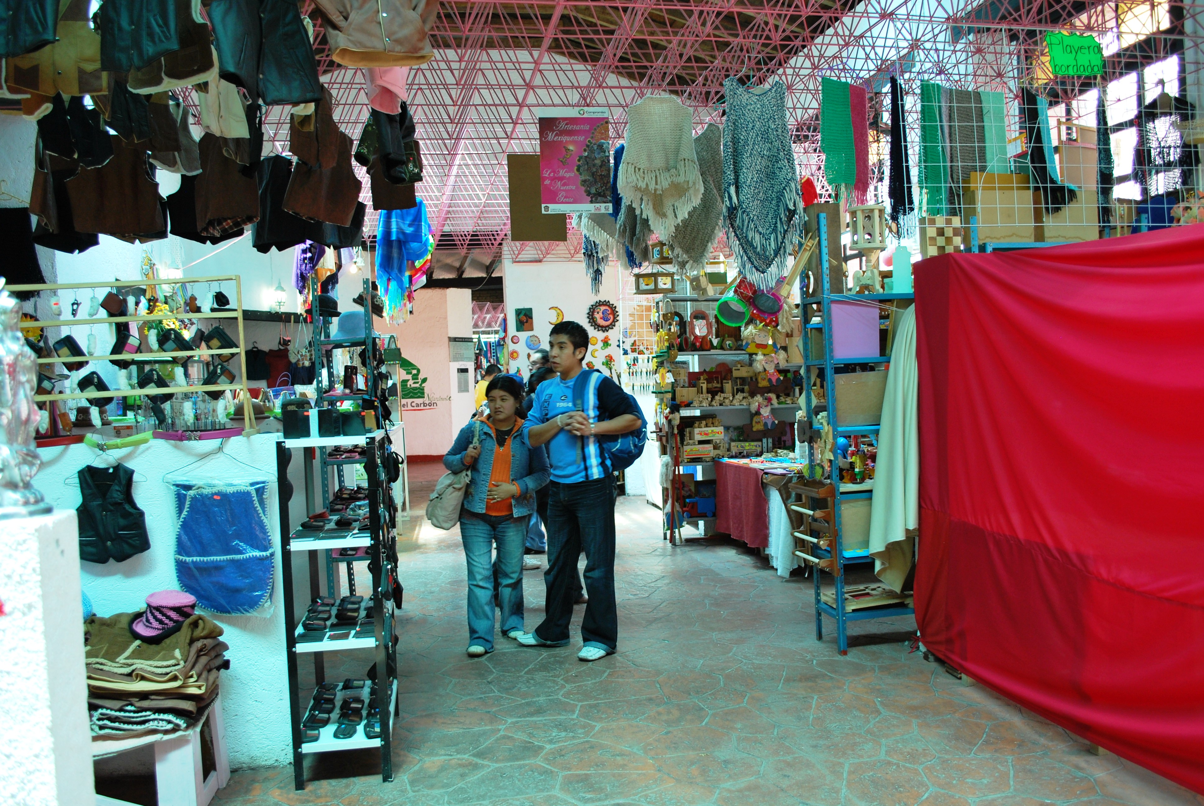 People browsing merchandise at the Crafts Market in Villa del Carbón, Mexico State, Mexico